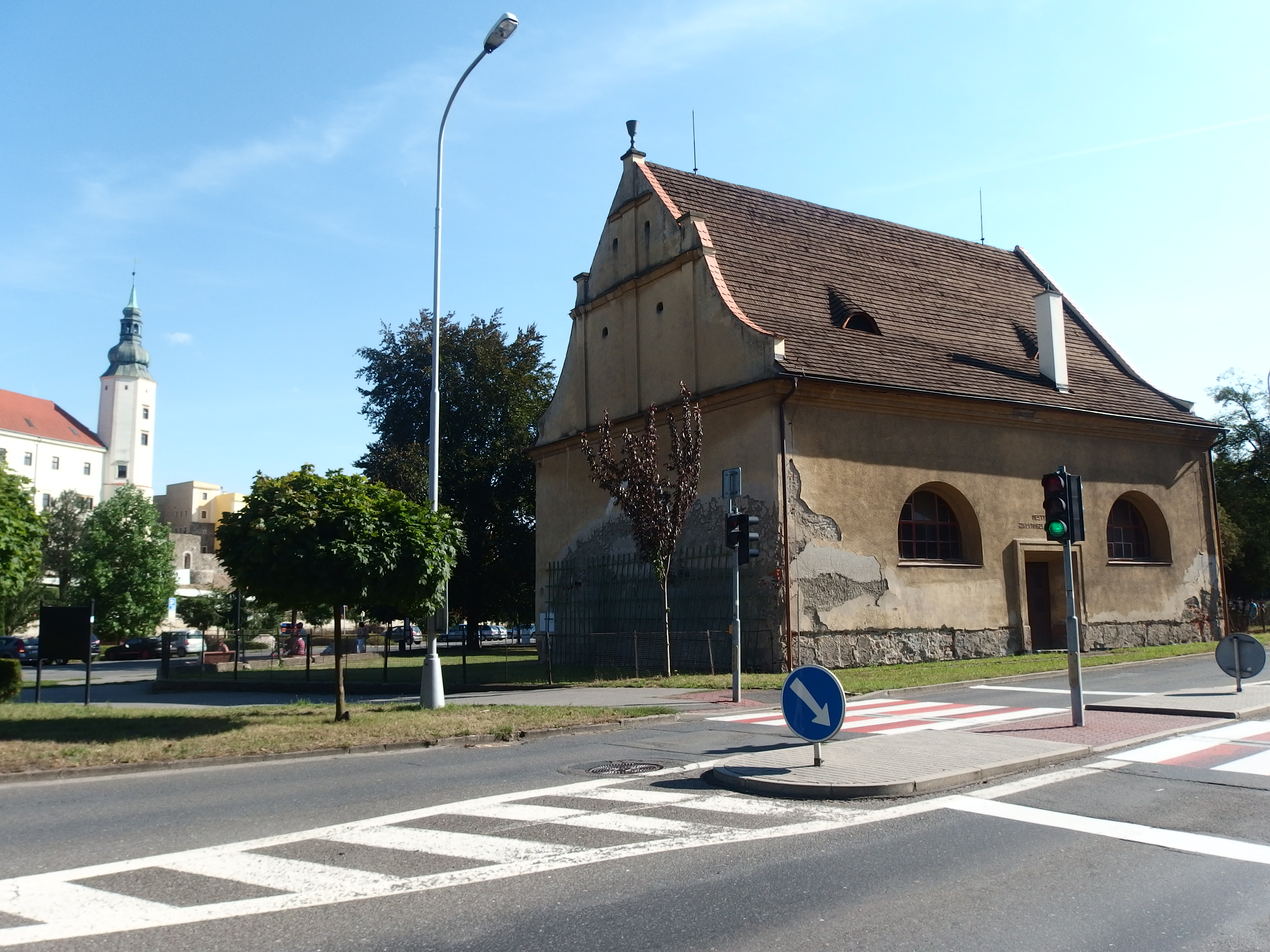 Hranice, Přerov District, Czech Republic.